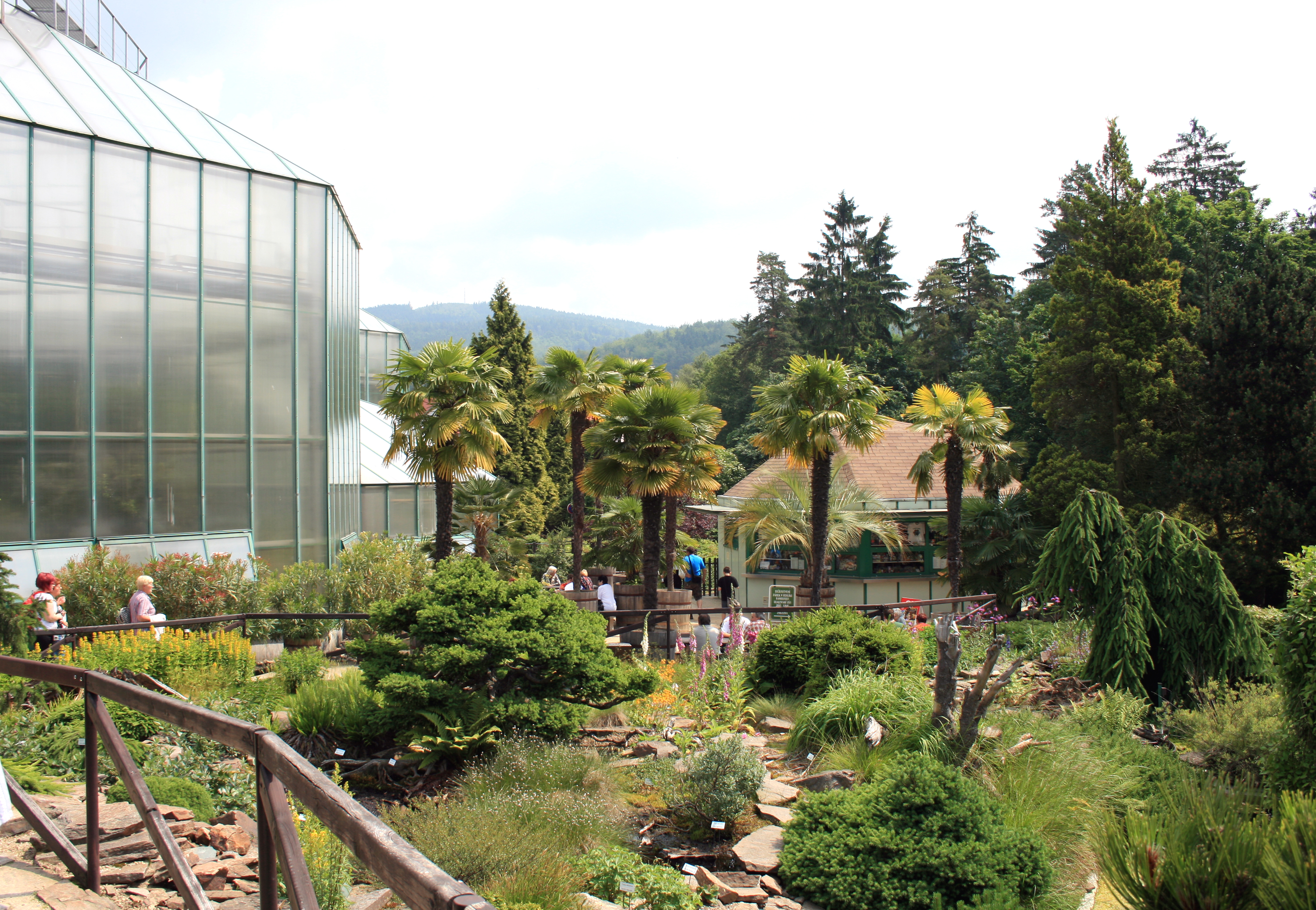 Interior of Botanical Garden Liberec, Czech Republic